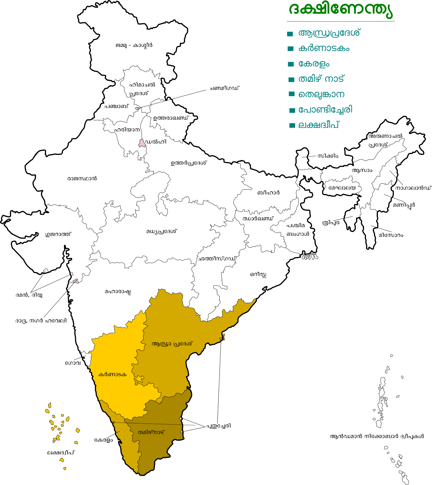 Map of South India after the States Reorganization Act of 1956